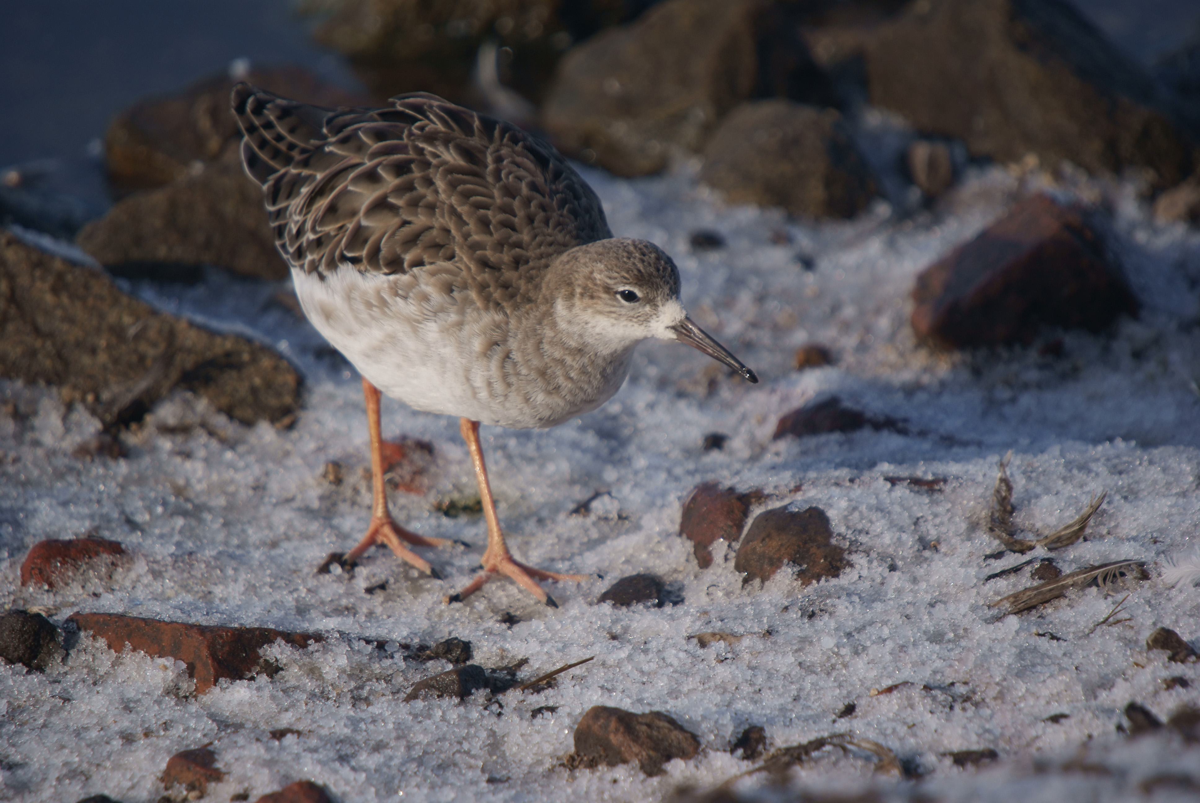 A Ruff with snow on the ground at Martin Mere, Lancashire, England.